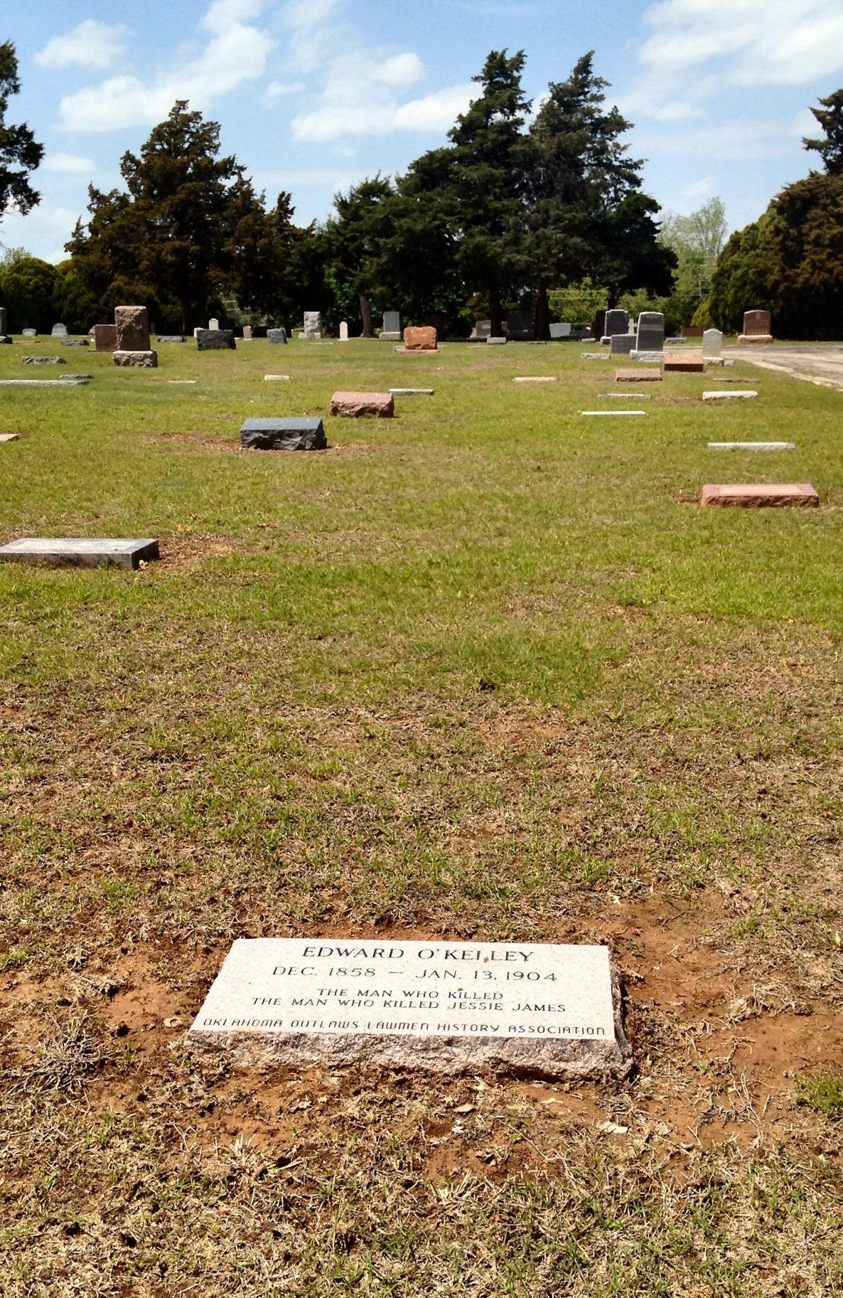 Gravestone of Edward O'Kelley, Fairlawn Cemetery, Oklahoma City, Oklahoma